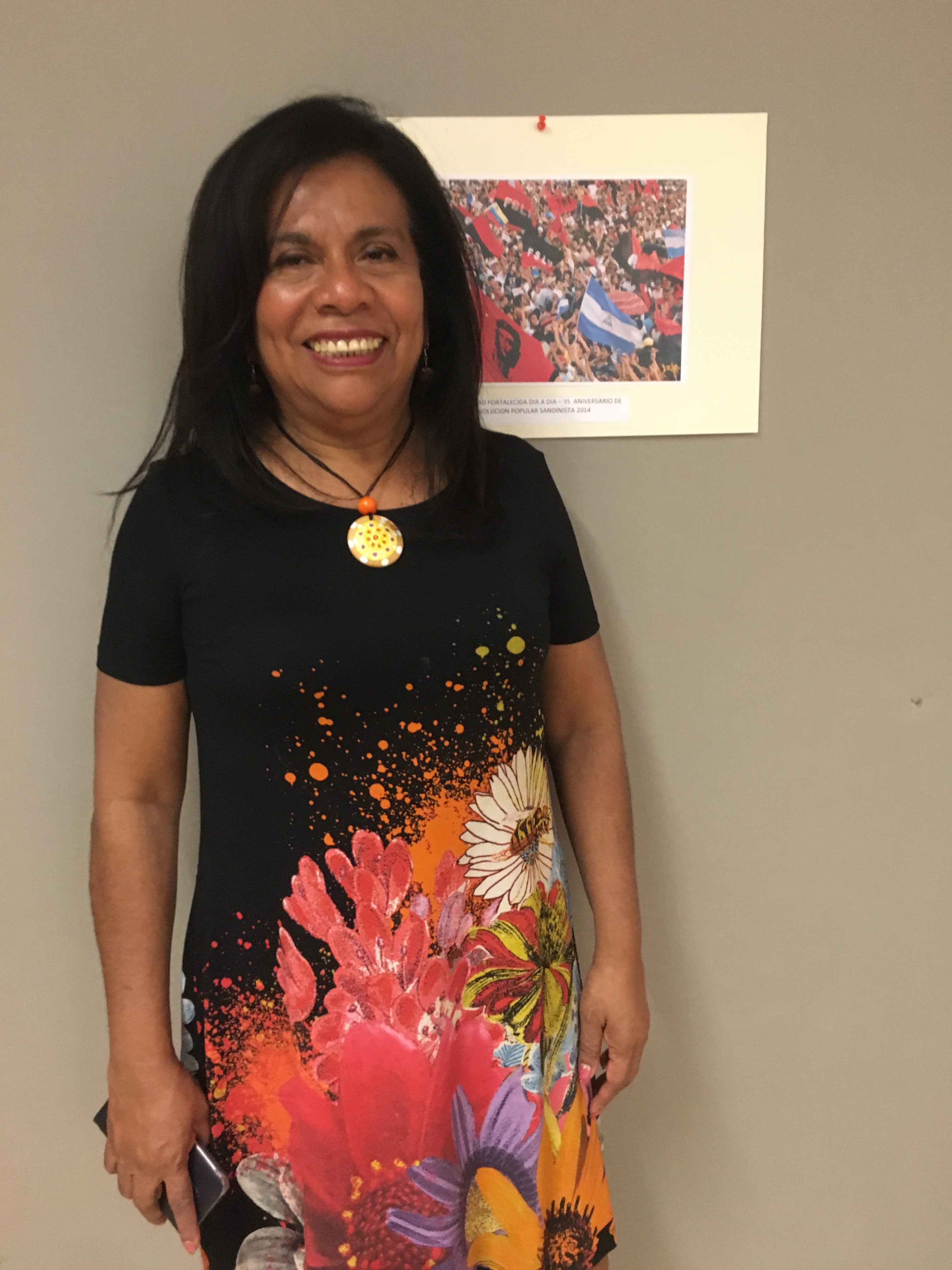 Veronica Rojas Berrios, the embassador of Nicaragua in Stockholm, Sweden, 2017